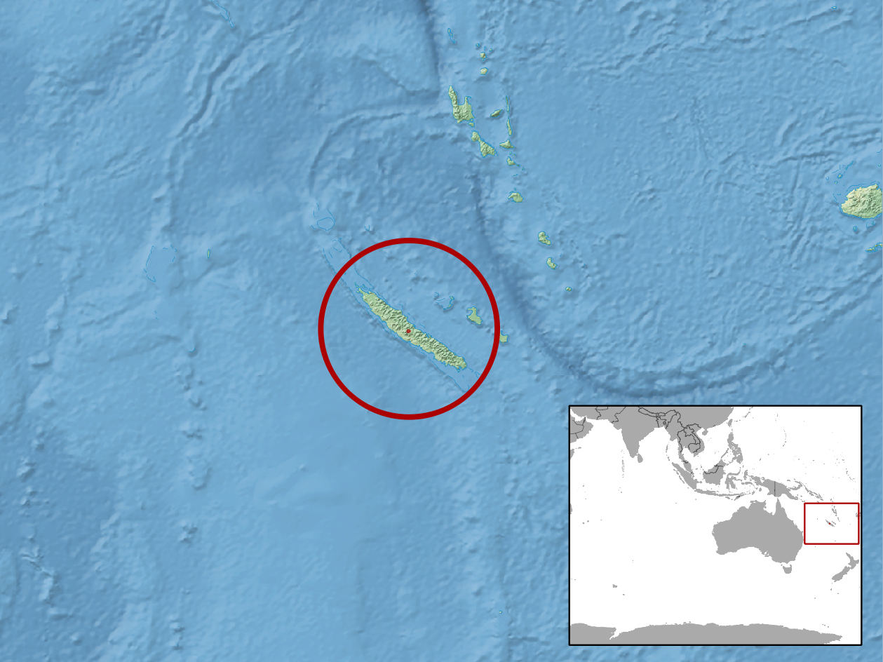 geographic distribution of Geoscincus haraldmeieri